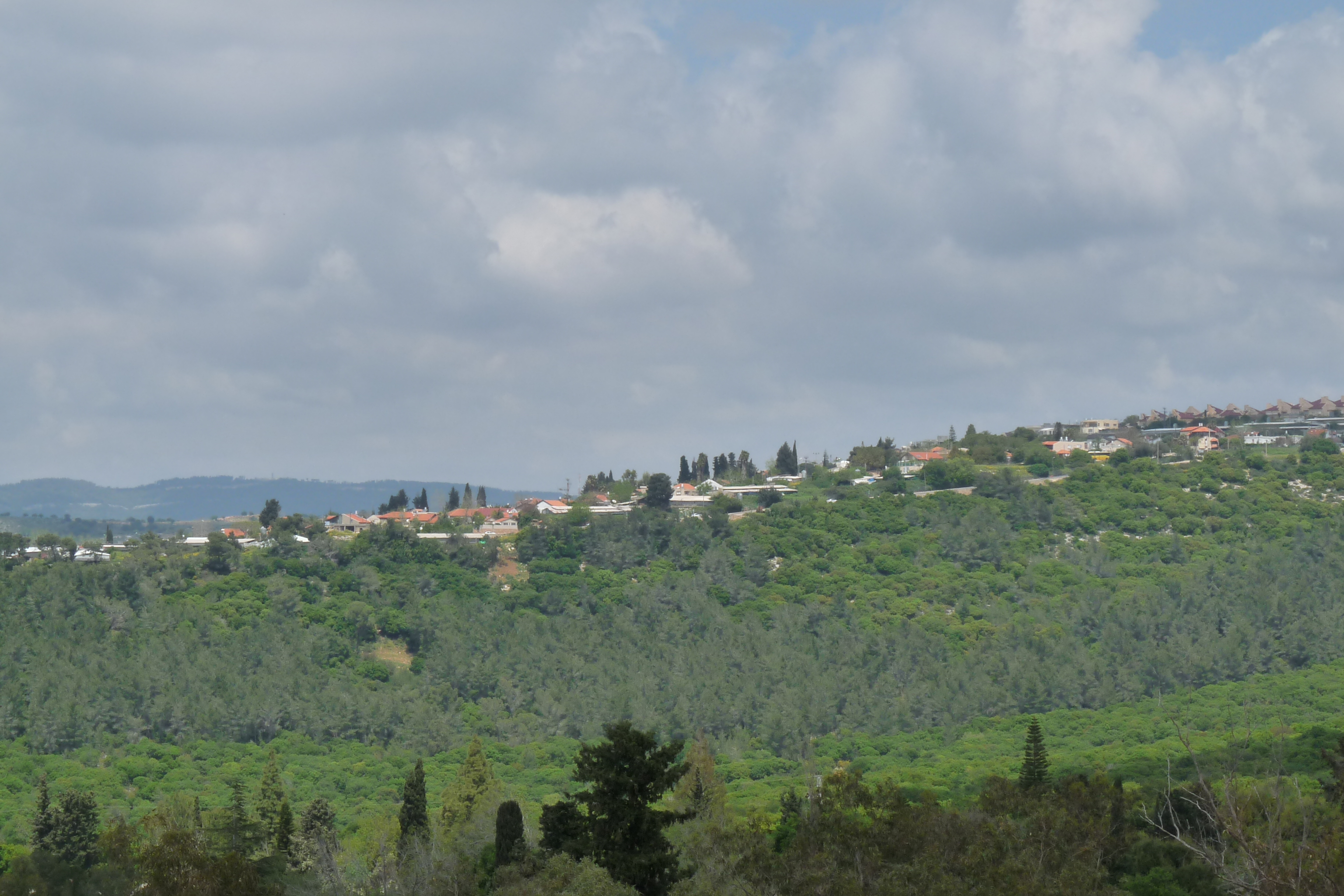 Overview of the houses of Ein Ya'akov as seen from the Yechiam castle